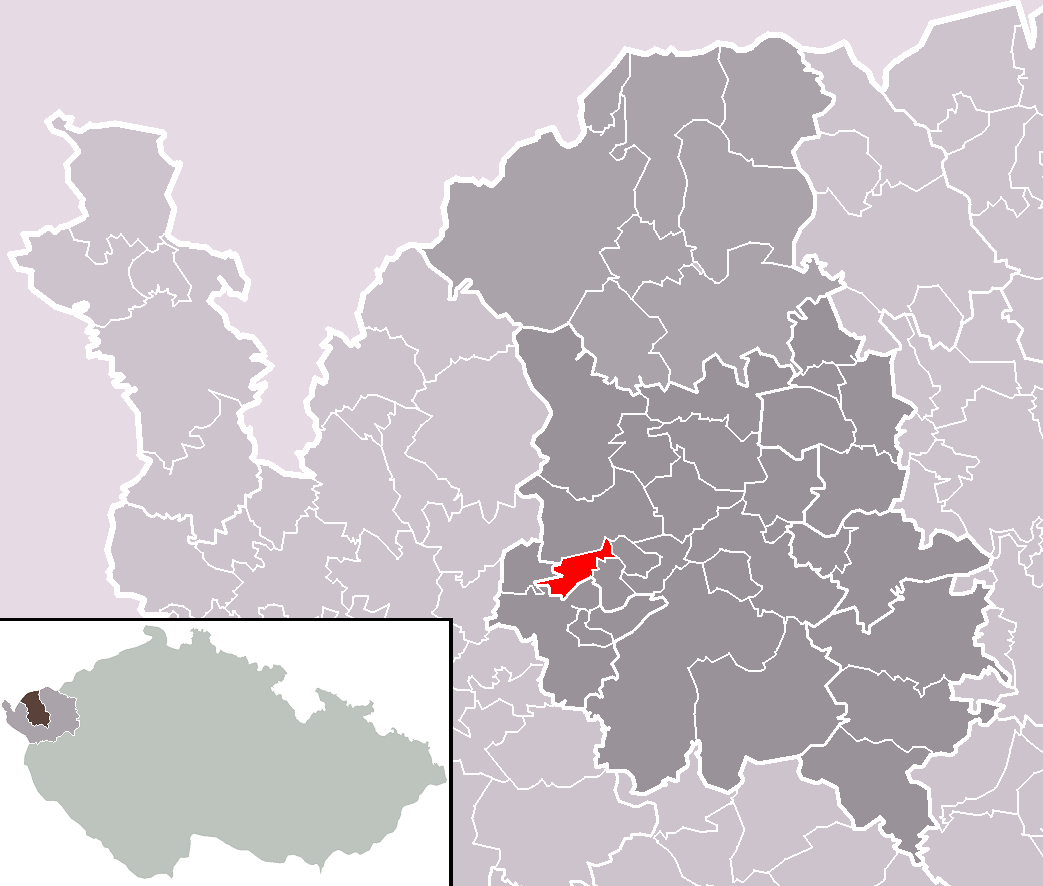 Location of Chlum Svaté Maří municipality within Sokolov District and administrative area of Sokolov as a Municipality with Extended Competence.